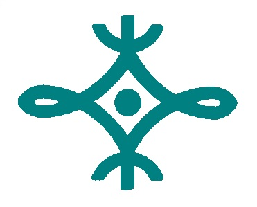 Taishi Hyogo chapter